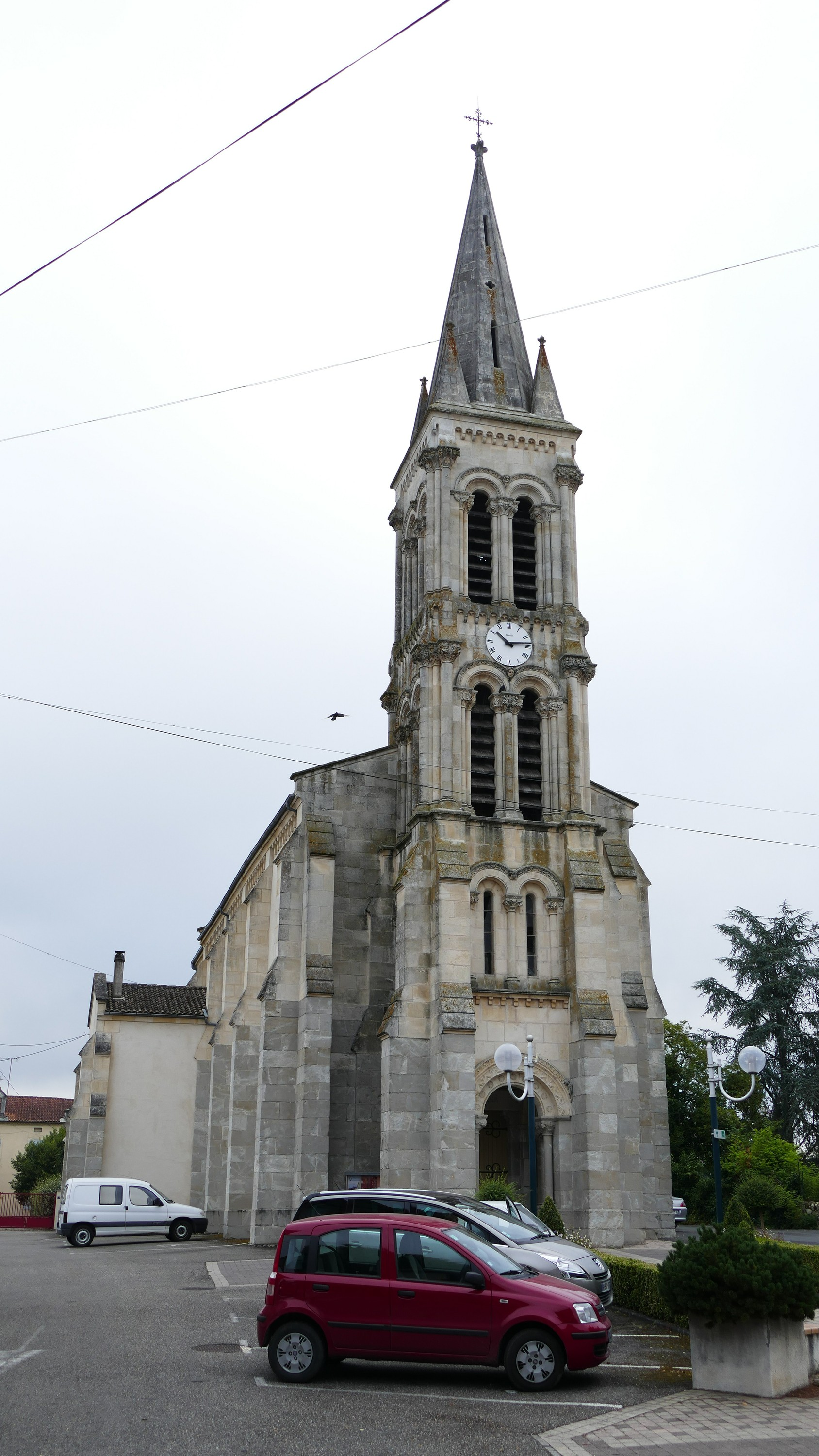 Saint-Sylvestre's church in Saint-Sylvestre-sur-Lot (Lot-et-Garonne, Aquitaine, France).